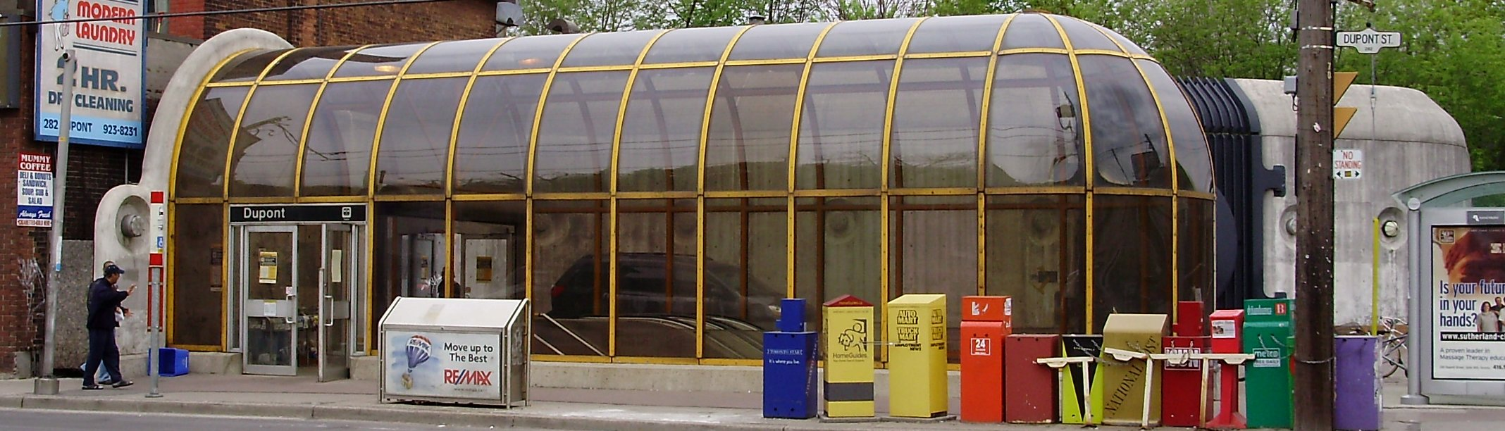 The Toronto Transit Commission's Dupont station in Toronto, Canada.